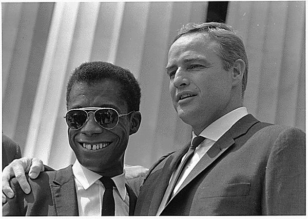 Civil Rights March on Washington, D.C.[Author James Baldwin and actor Marlon Brando.], 08/28/1963